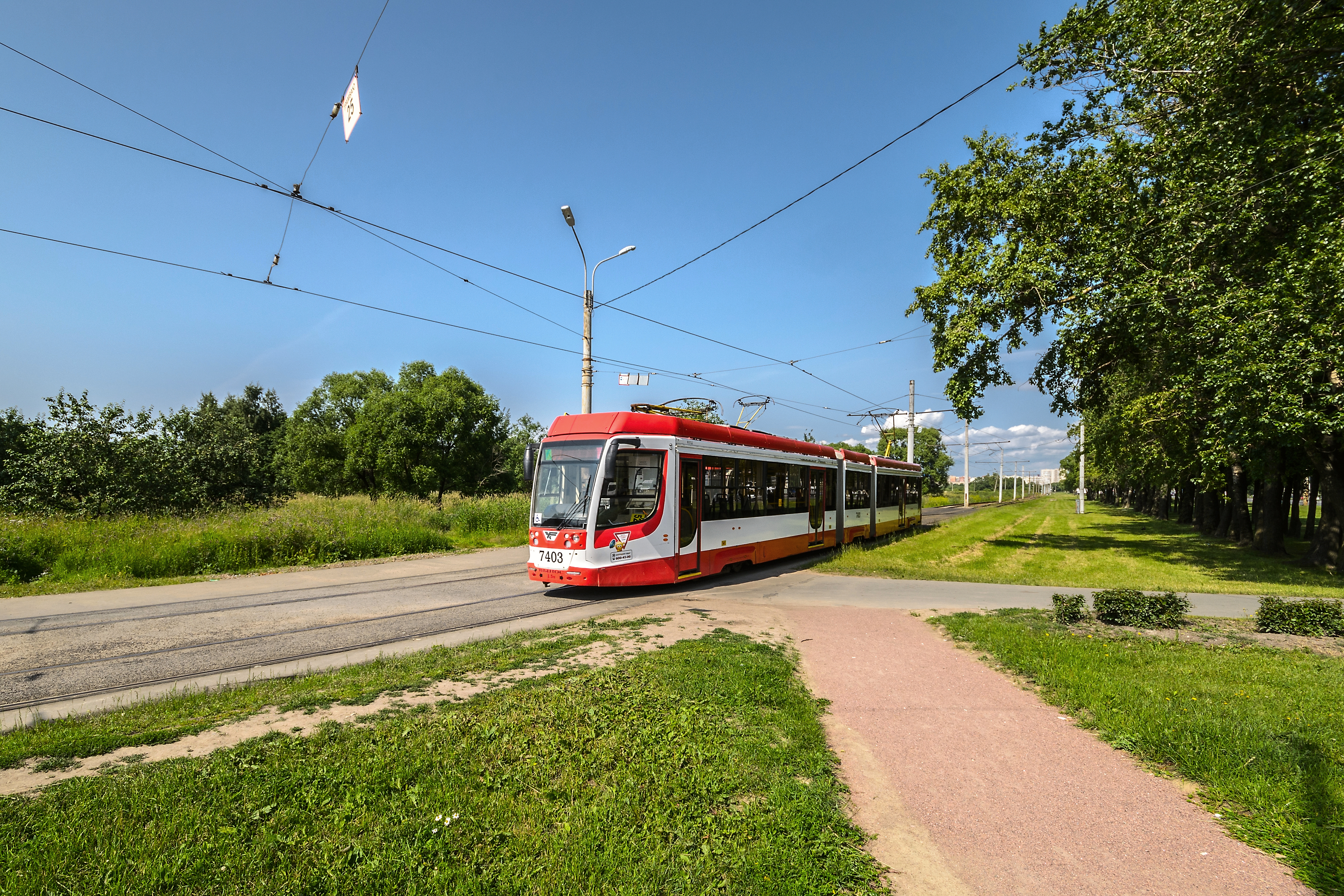 Marshala Zhukova Avenue in Saint Petersburg